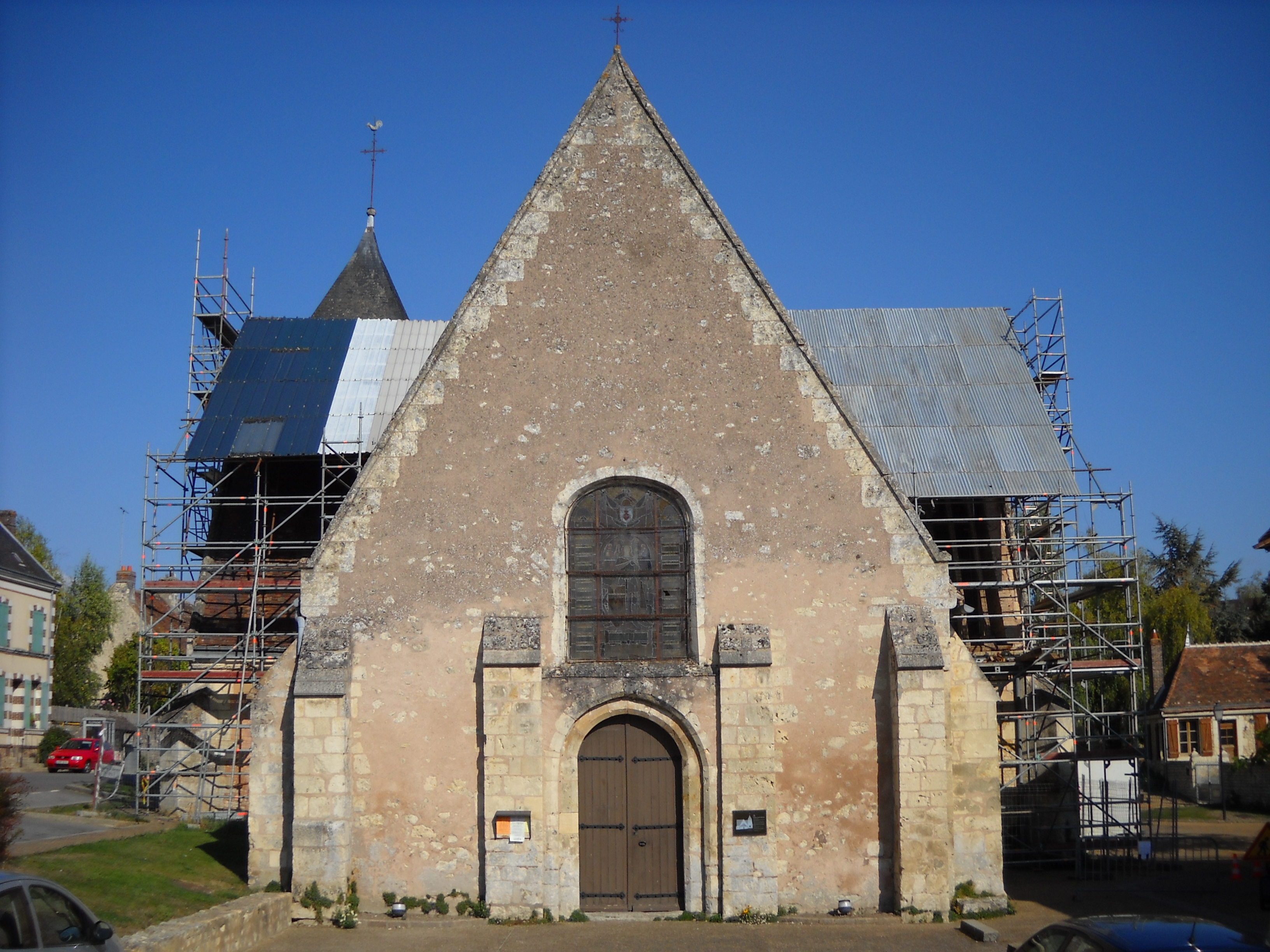 St.Germain's church, in Préaux-du-Perche, Orne, France.